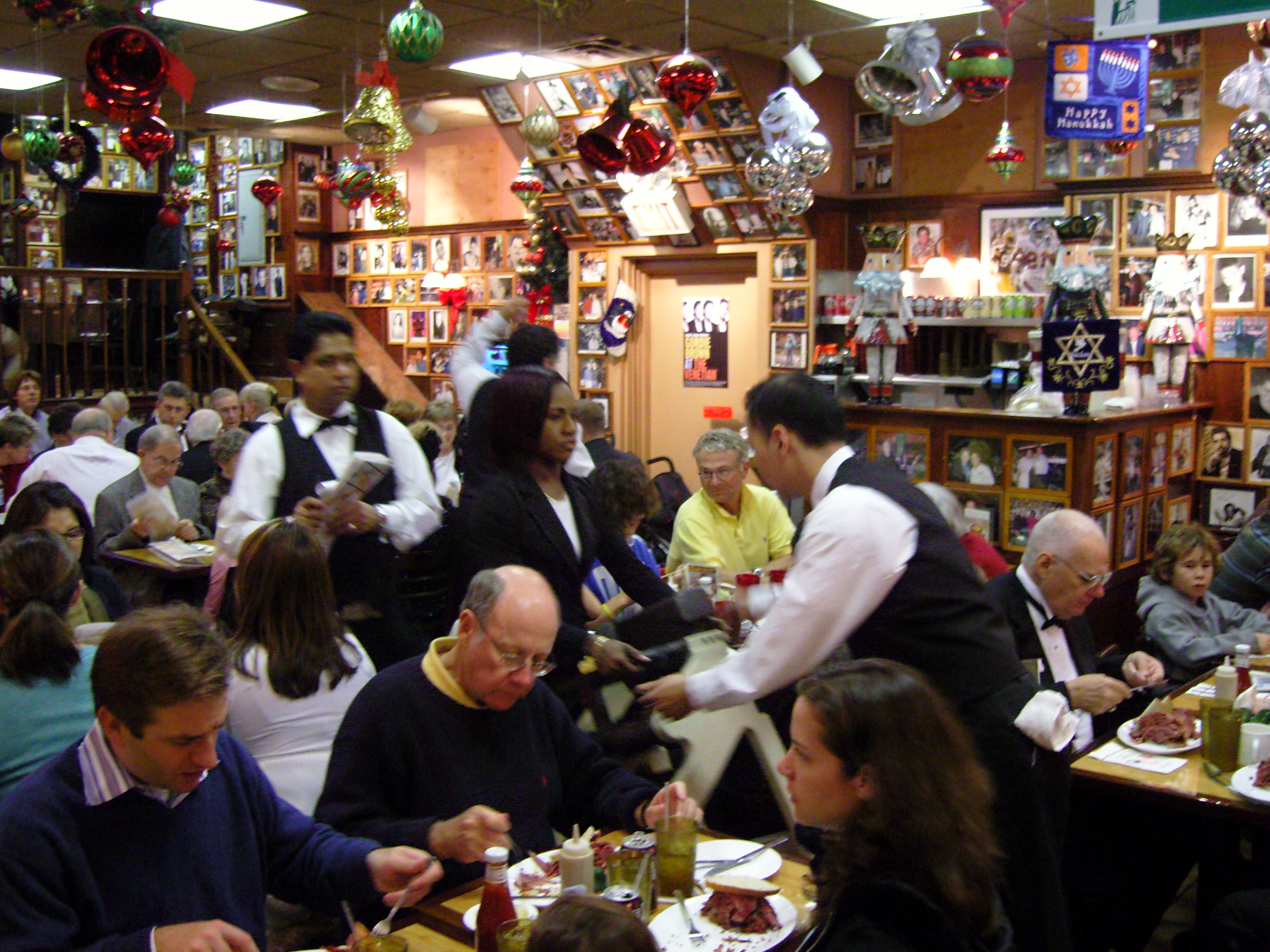 Crowded house. Carnegie Deli, New York City. Och långt ifrån mest turister.